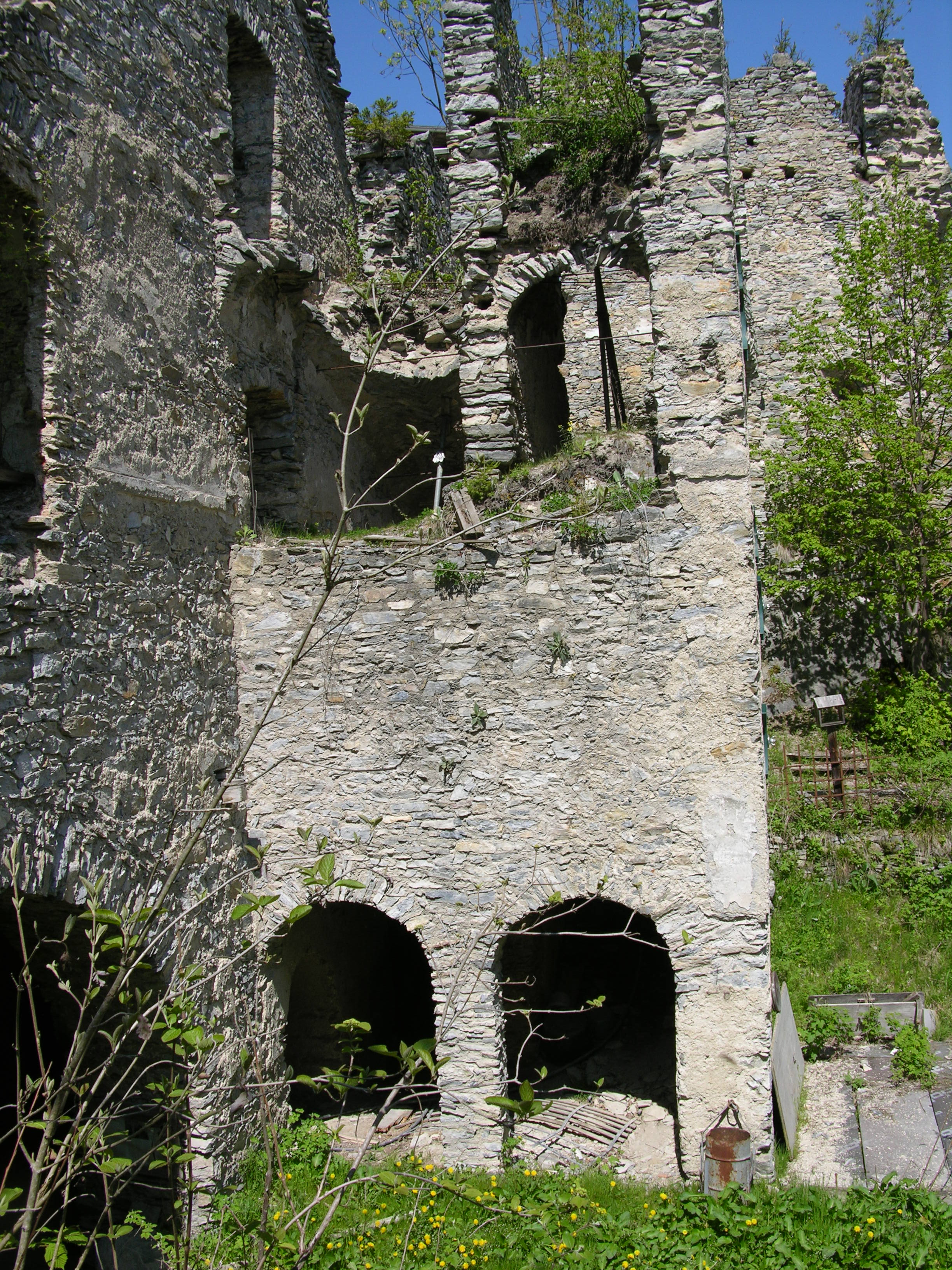 Staircase